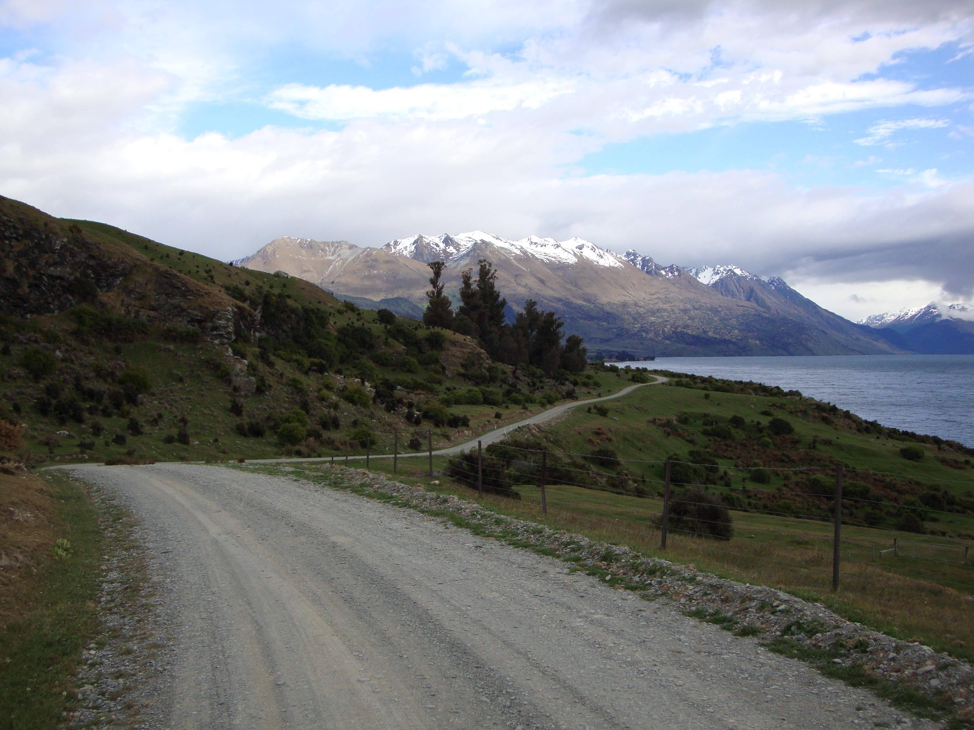 Mt Nicholas Beach Road, part of the proposed 'Round the Mountain' cycle trail south of Lake Wakatipu.